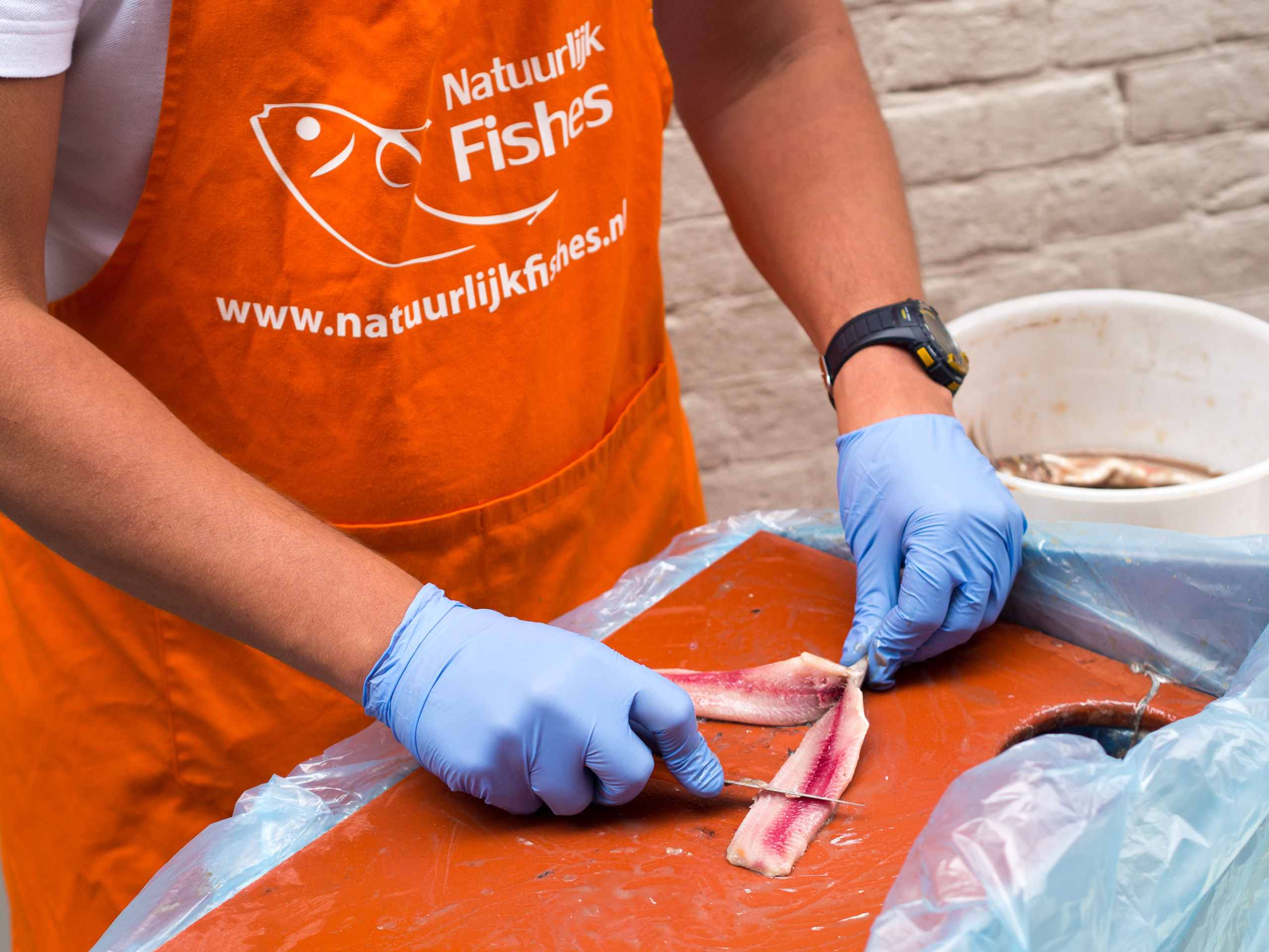 Cleaning a Dutch herring